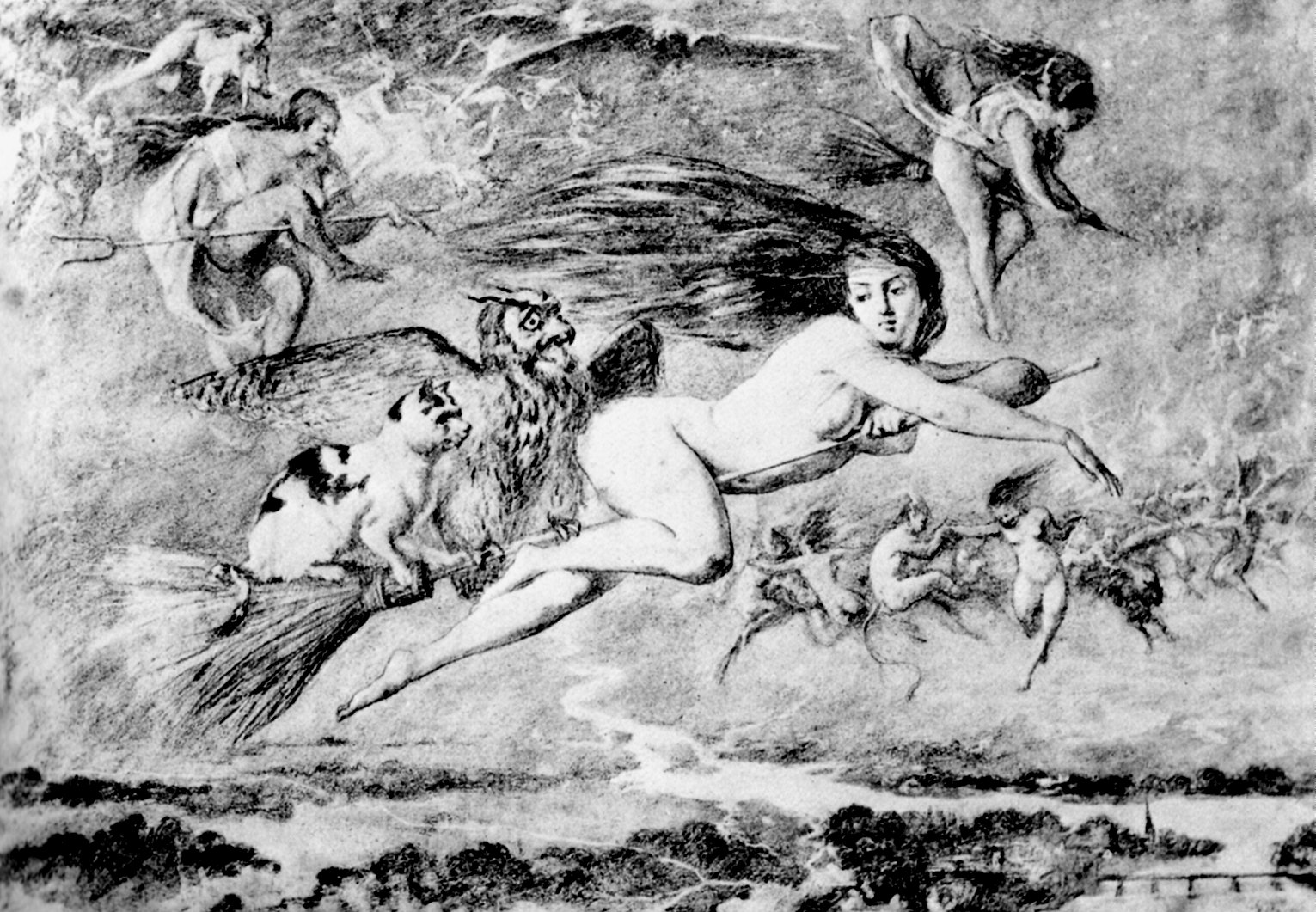 Photograph of a chalk drawing (132 x 190 mm) by Frank Buchser. Illustration of Gottfried Keller's fairy tale "Spiegel das Kätzchen".